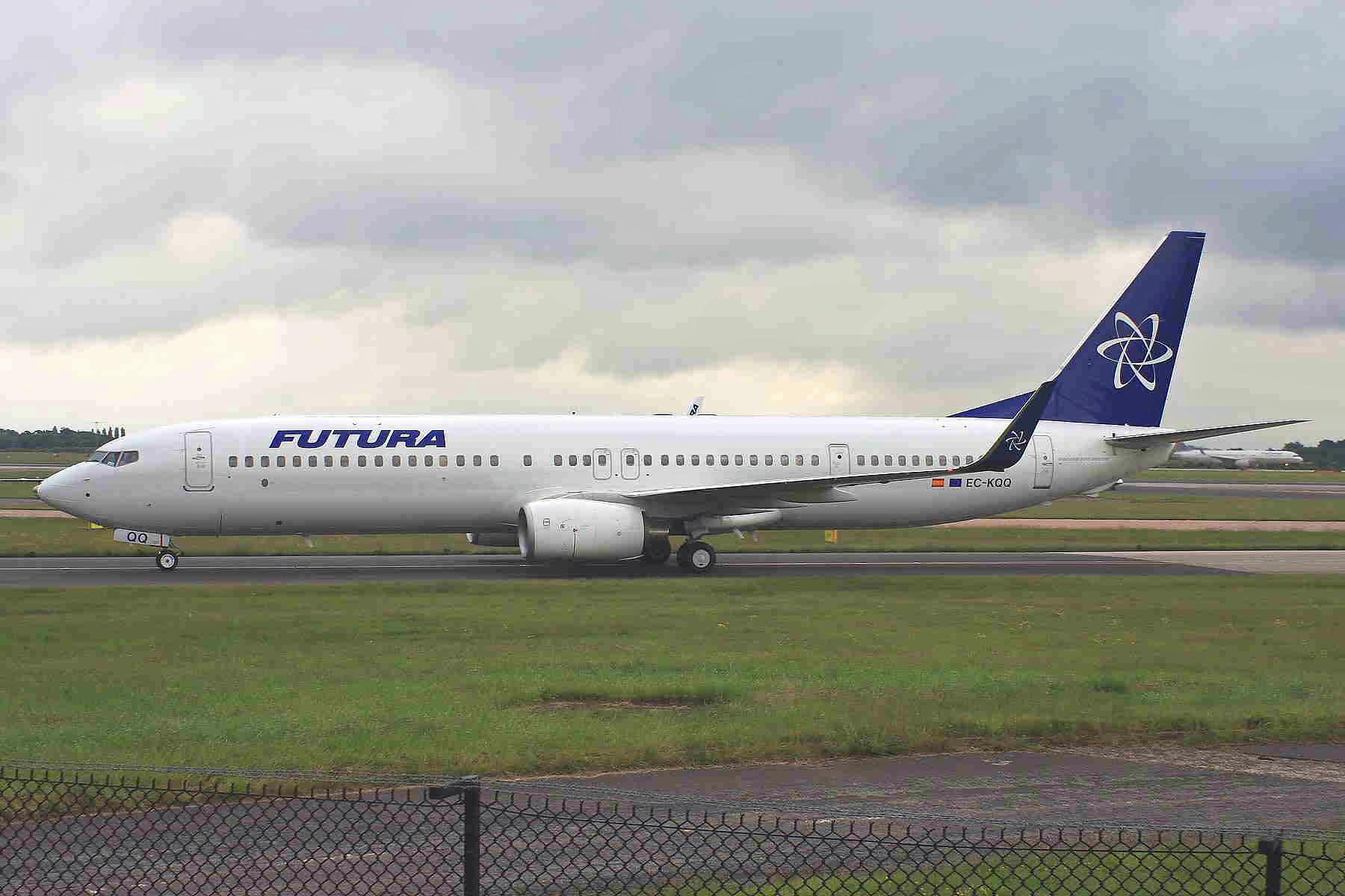 Futura's two 737-900's were only operational for 5 months from Apr-08 until they ceased ops in Sep-08.